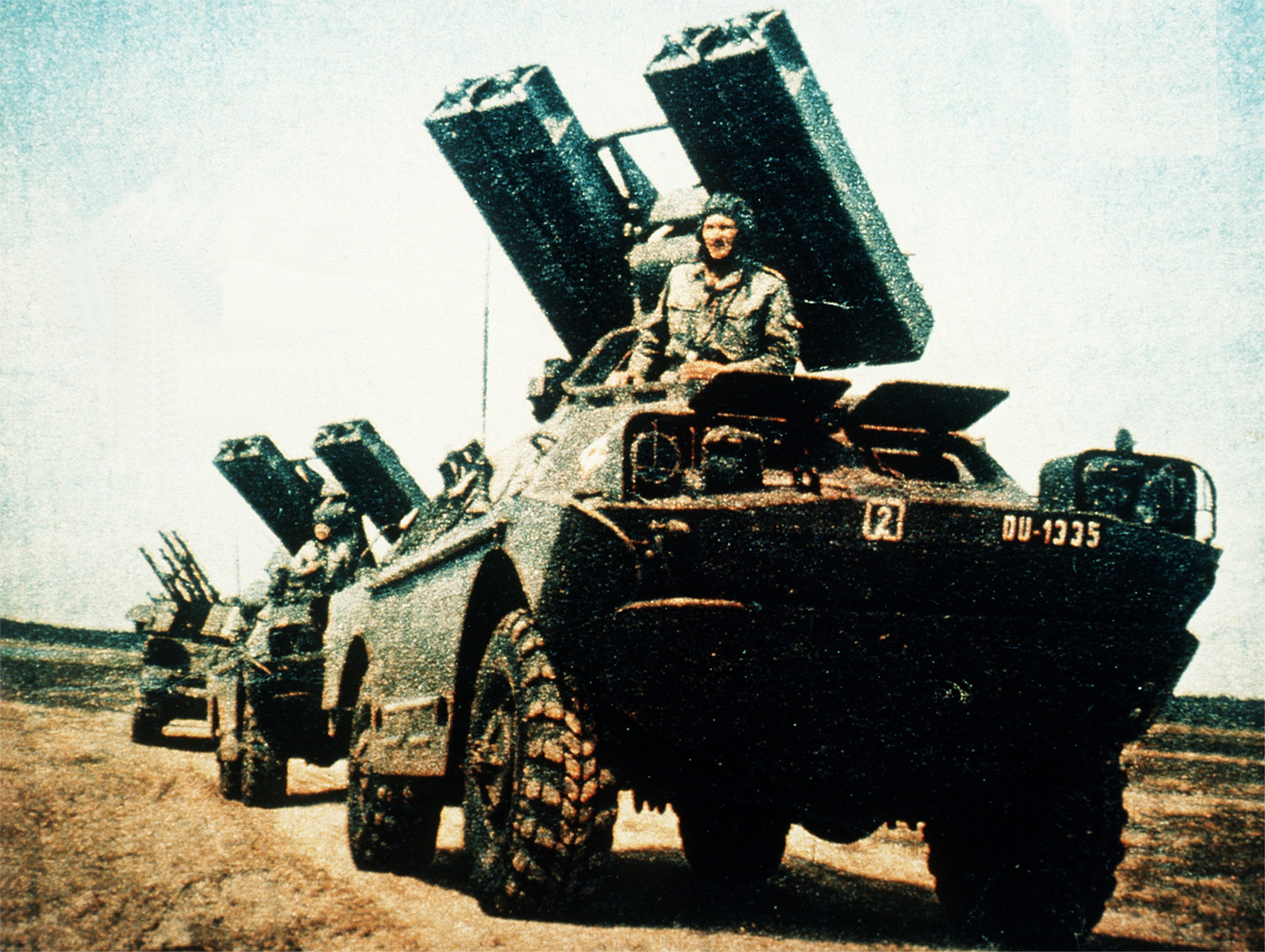 A right front view of a Soviet-made 9P31 mobile SAM launcher in Polish service mounted on a BRDM-2.